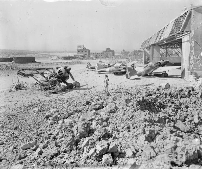 Royal Air Force- Italy, the Balkans and South-east Europe, 1942-1945. Wrecked and damaged Italian fighters outside bomb-shattered hangars at Catania, Sicily, under the scrutiny of an airman, shortly after the occupation of the airfield by the RAF.